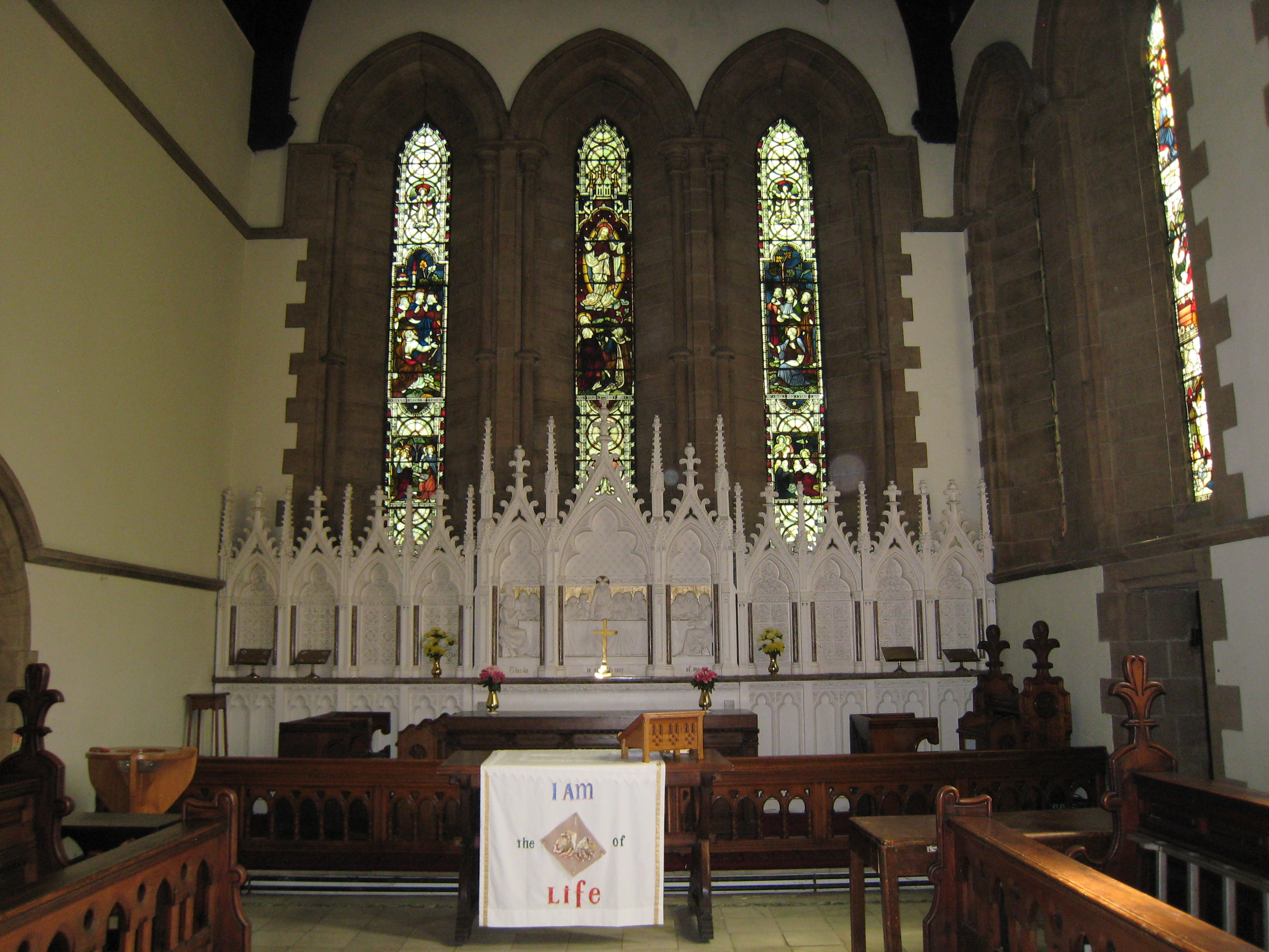 Part of the chancel of Christ Church, Upper Armley, Leeds. Altar, reredos and stained glass windows.